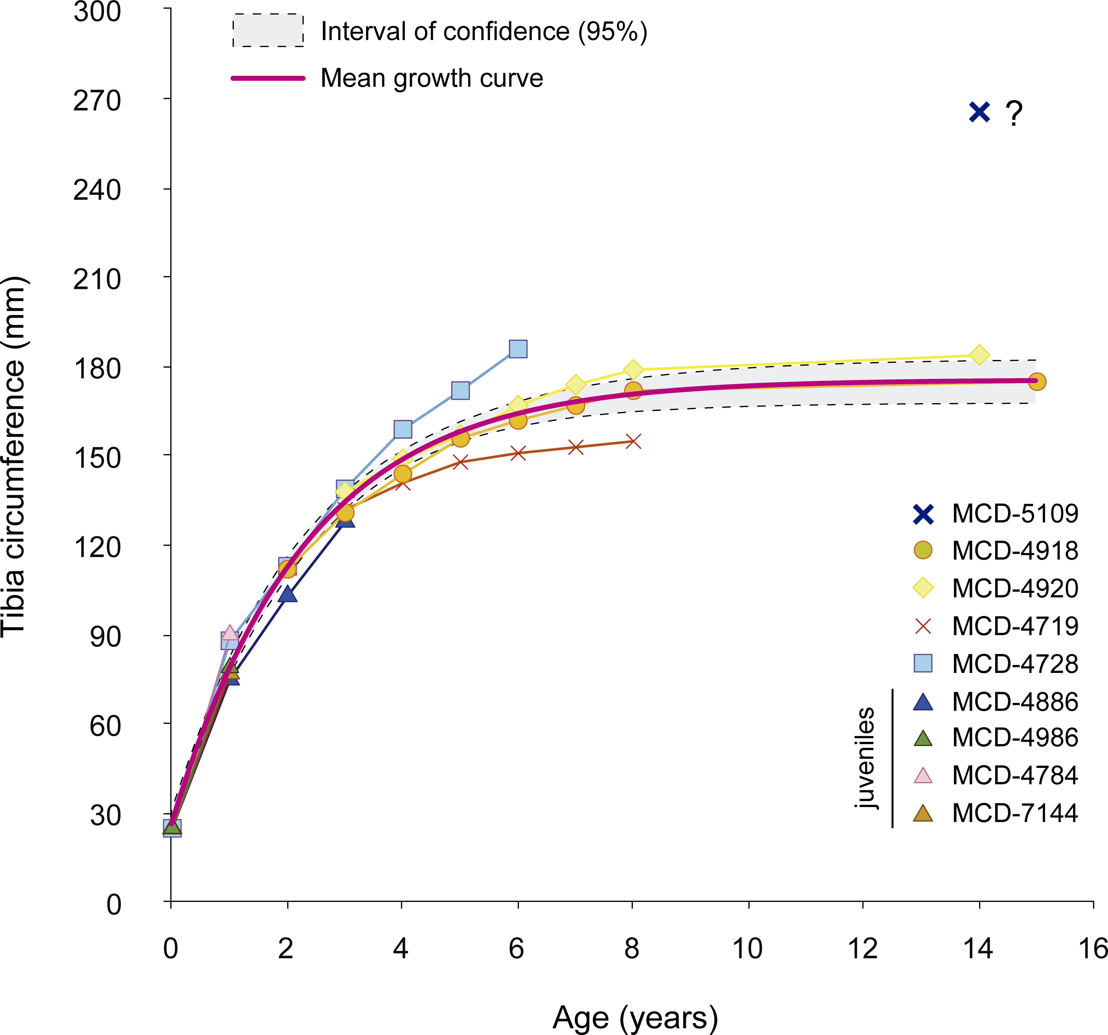 Tibial circumference is used as a proxy for body size (von Bertalanffy's [22] model). Note that the trajectories are similar until age three years.